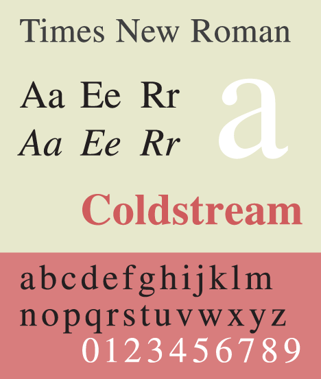 Specimen of the typeface Times Roman. Jim Hood/